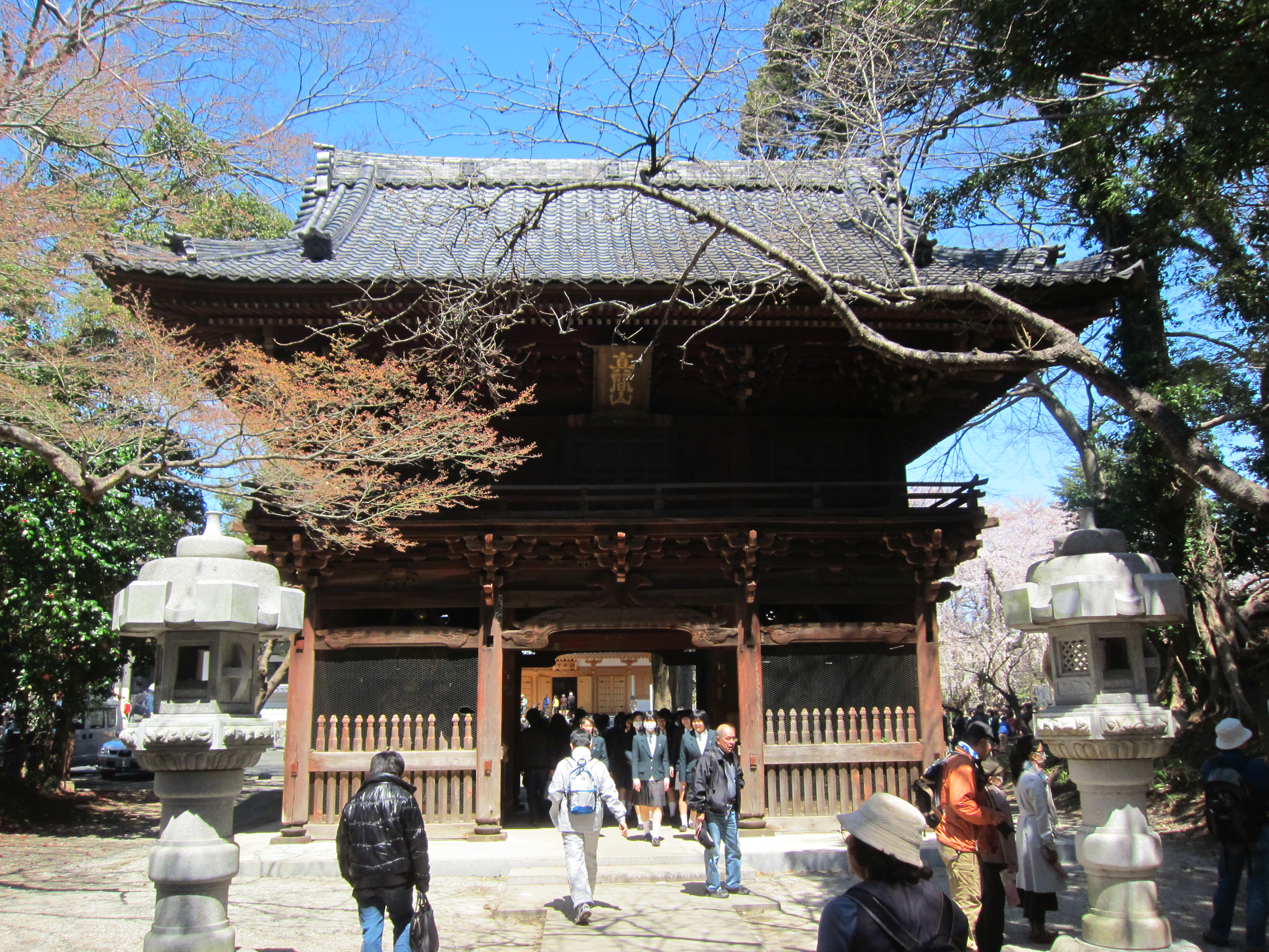 Niohmon of Mamasan Guhoji in Ichikawa City.